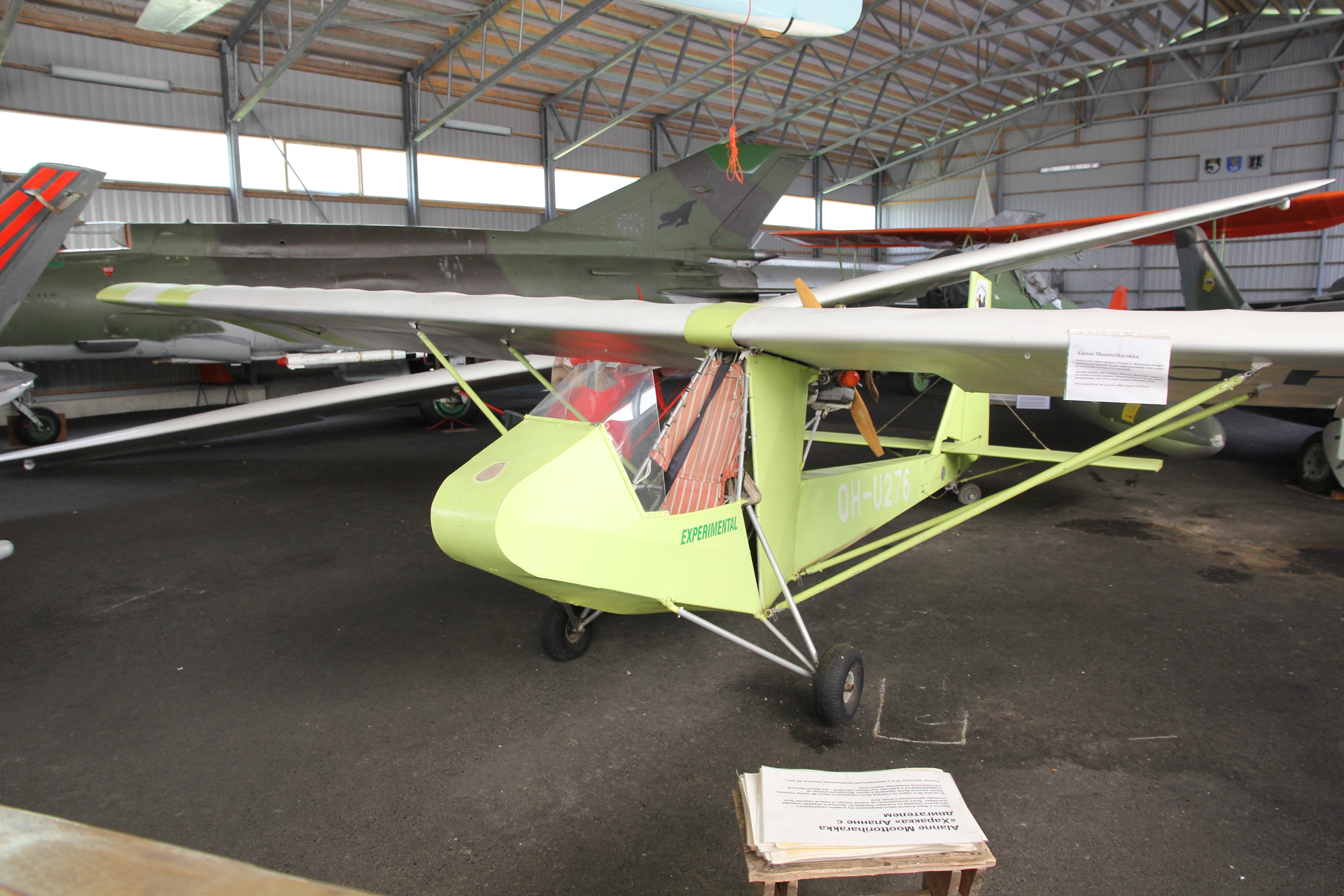 Alanne Moottoriharakka (OH-U276), Harakka II primary glider converted to ultralight aircraft. Equipped with Citroën C2V engine. Photographed in Karhulan ilmailukerho aviation museum.